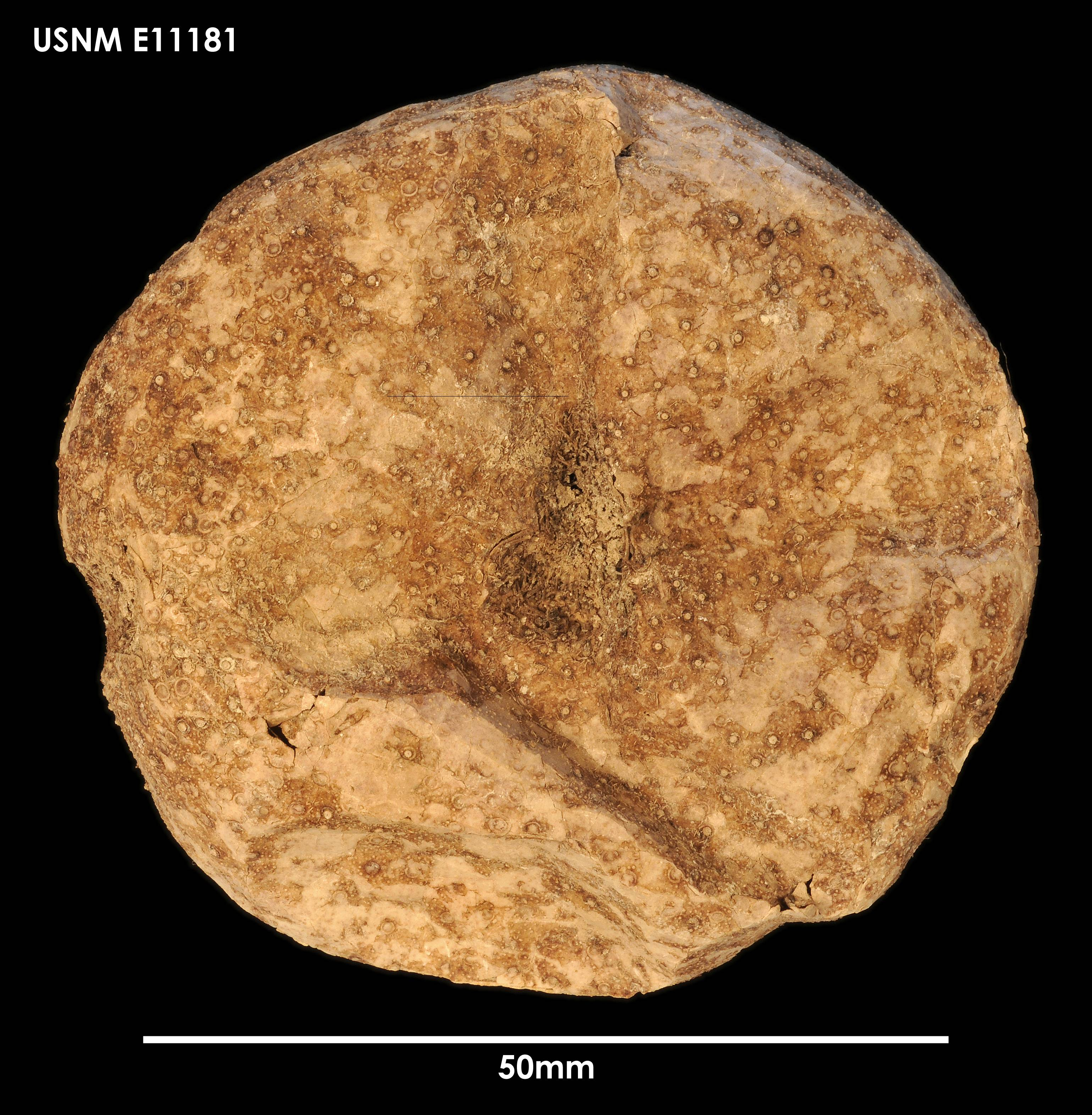 PRESERVED_SPECIMEN; Preparations: Dry; Pilematechinus vesica (A.Agassiz, 1879); Individual count: 10; Type status: (no data); Identified by: Chesher, R. H.; Event date: 19640610T00:00:00Z; Additional description: Dorsal view, dry specimen